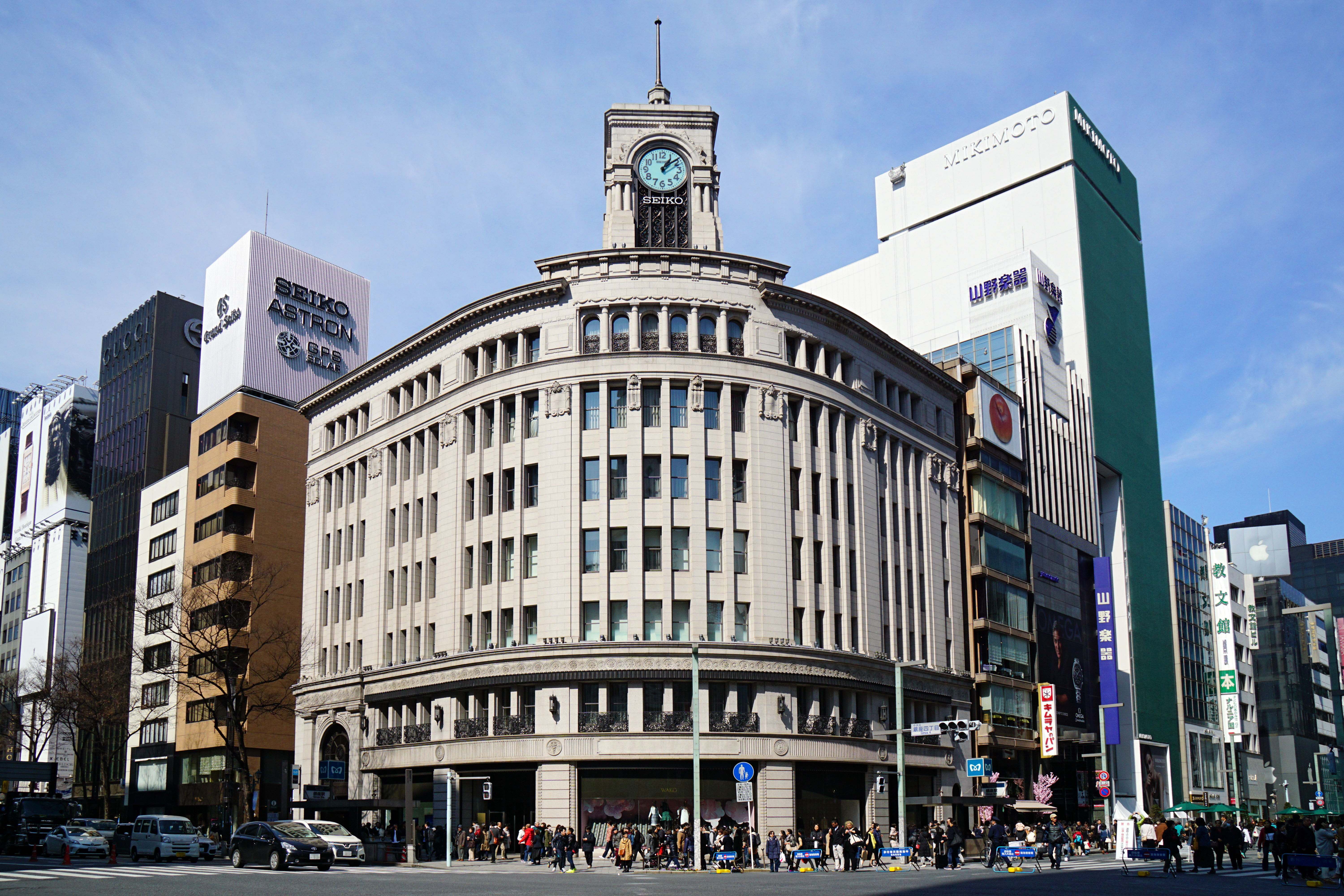 At Ginza in Tokyo, Japan